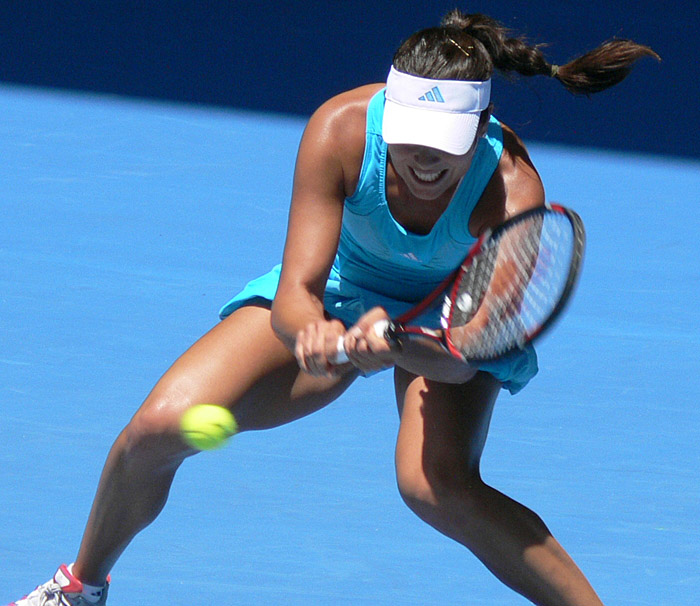 Ana Ivanović at the 2008 Australian Open